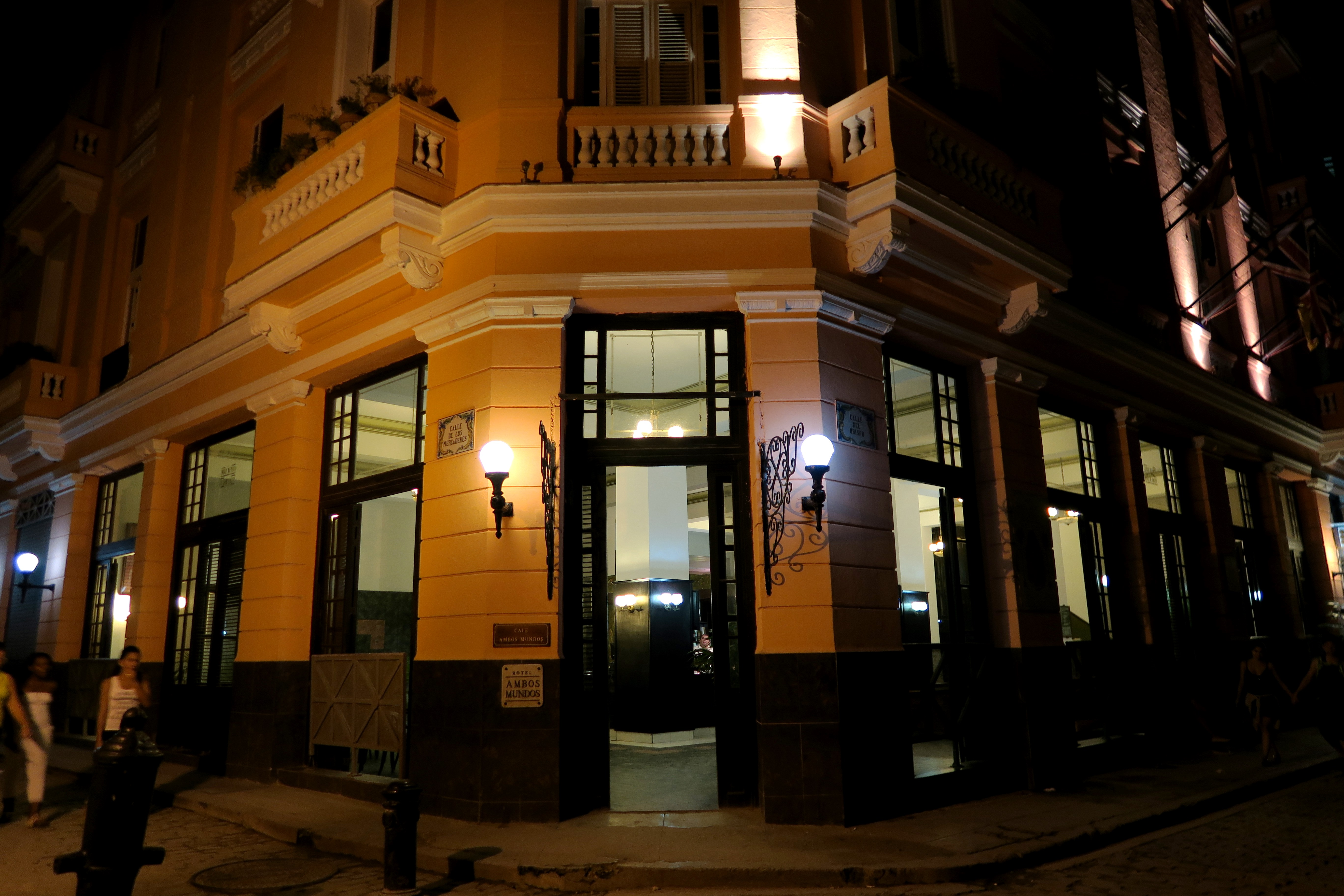 Hotel Ambos Mundos, built in 1924, is located on the corner of Obispo and Mercaderes streets in Old Havana, Cuba. Hotel Ambos Mundos was home to the Ernest Hemingway during the 1930s.